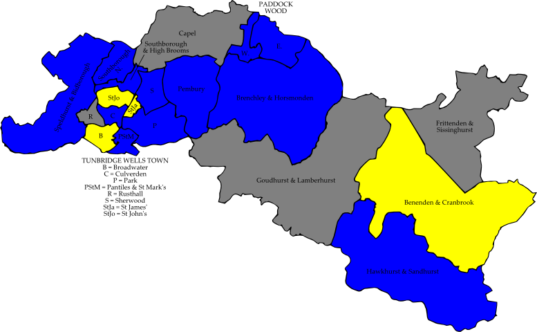 A map of the results of the 2010 Tunbridge Wells Council election. Colour legend by wards won: Conservative party Liberal Democrats Wards in grey were not contested in 2010.